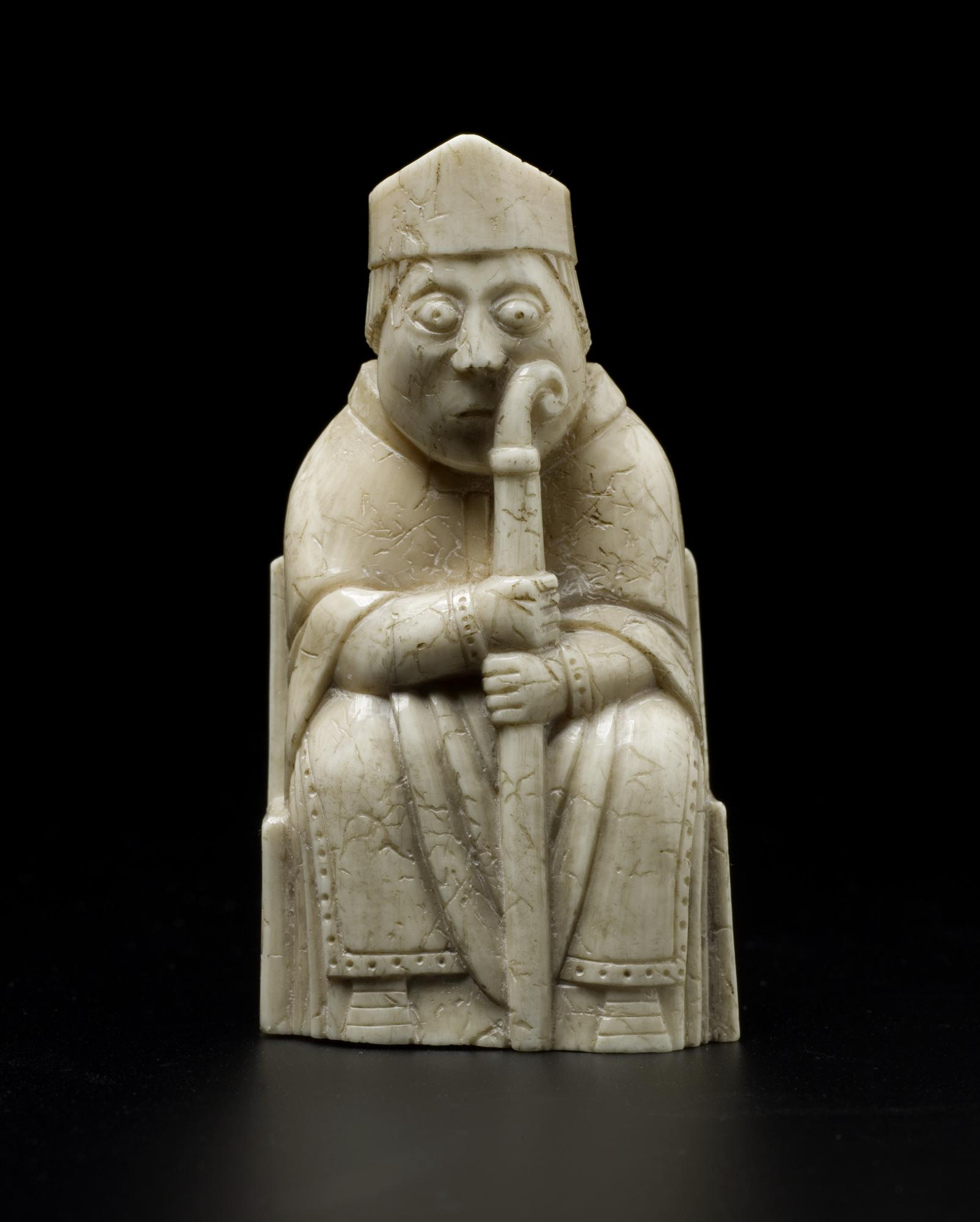 This file was uploaded as part of a partnership between Wikimedia UK and the National Museum of Scotland. This tag does not indicate the copyright status of the attached work. A normal copyright tag is still required. See Commons:Licensing. This work is free and may be used by anyone for any purpose. If you wish to use this content, you do not need to request permission as long as you follow any licensing requirements mentioned on this page.